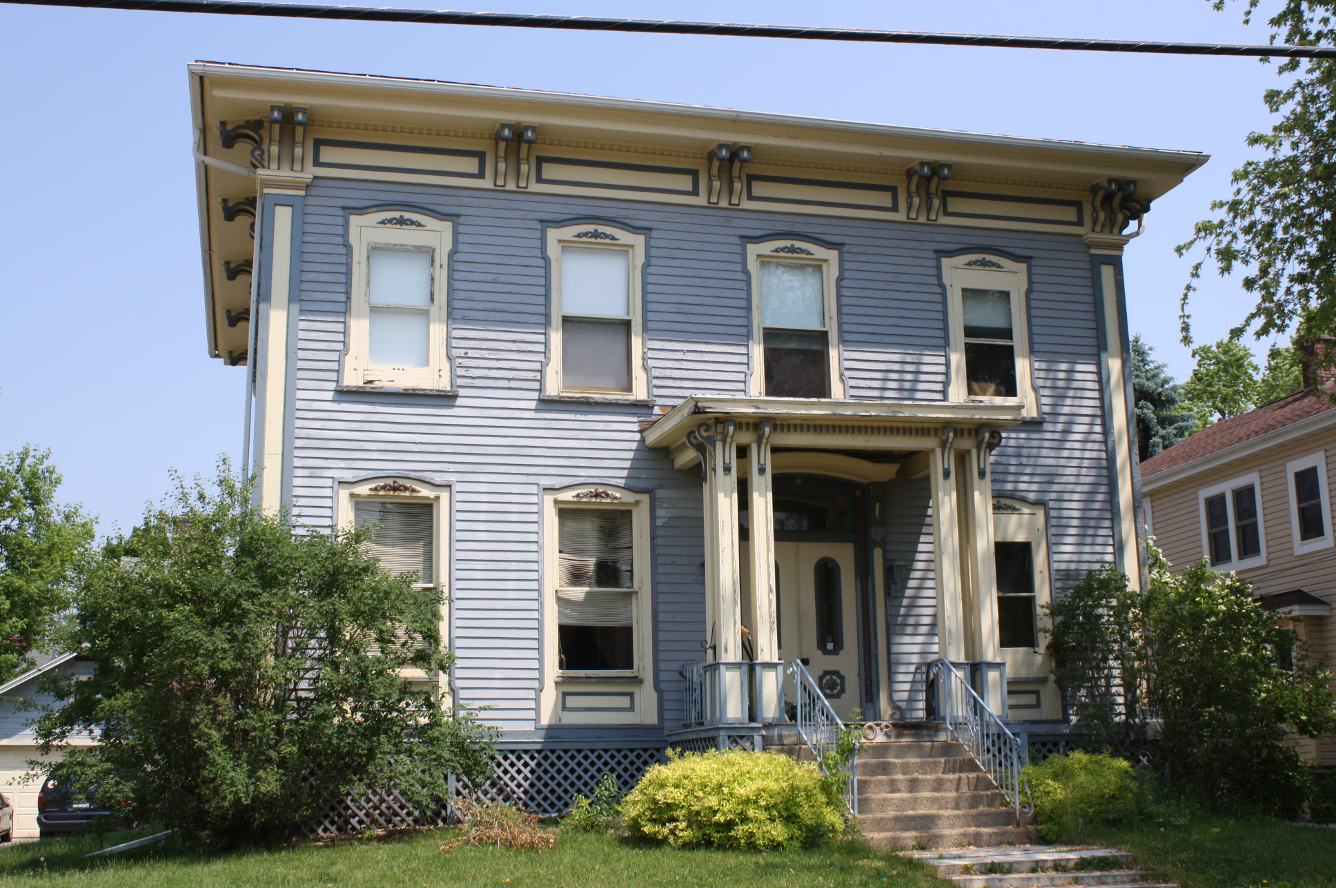 The front of the William I Cole House in Fond du Lac, Wisconsin, listed on the National Register of Historic Places.